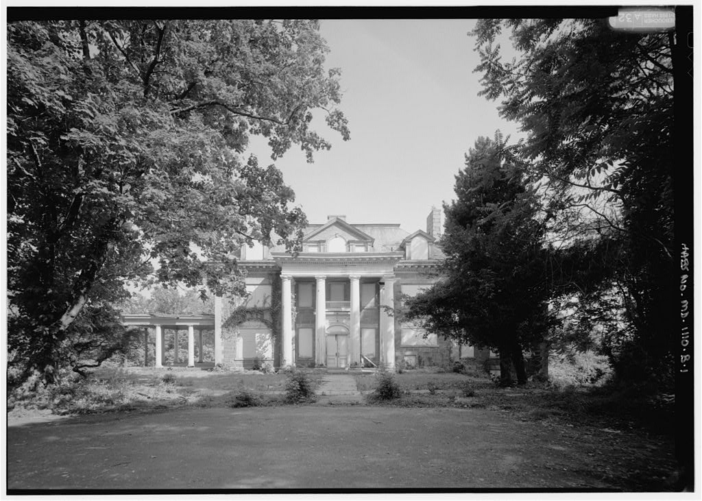 Photograph of the exterior of the Director's Residence — Jacob Tome School for Boys, on Tome Road, Port Deposit vicinity, Cecil County, northeastern Maryland. Gardens designed by Frederick Law Olmsted. Image courtesy of the federal HABS—Historic American Buildings Survey of Maryland. Historic American Buildings Survey, Library of Congress — [1]